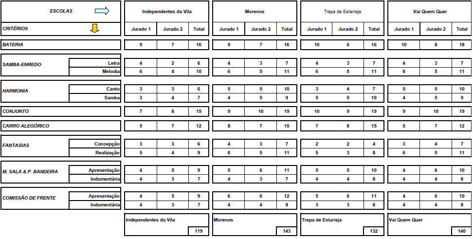 Results of Carnival of Estarreja in 2006